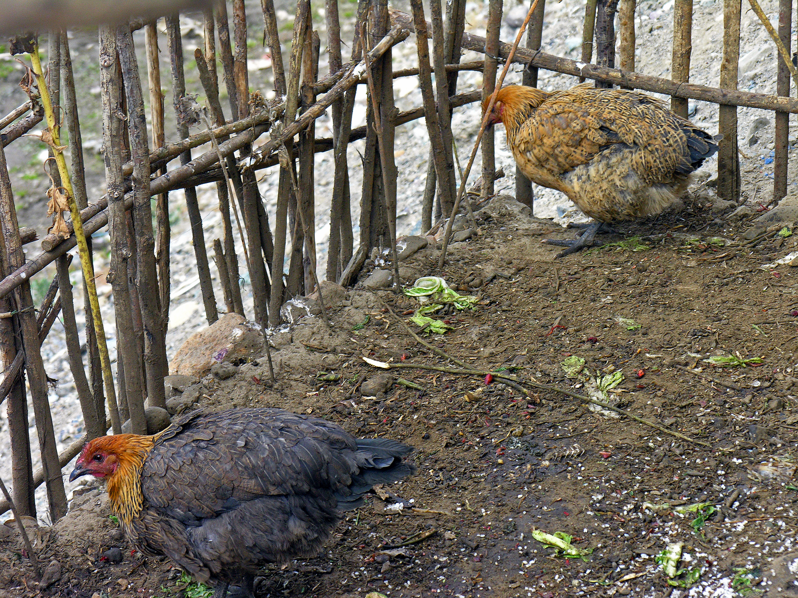 On the side of the building were chickens used by the restaurant – this place has really fresh food. There was also fishing hanging and drying near the entrance. Highway to Gyangtse, Tibet